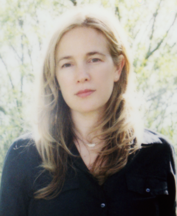 vendela vida portrait